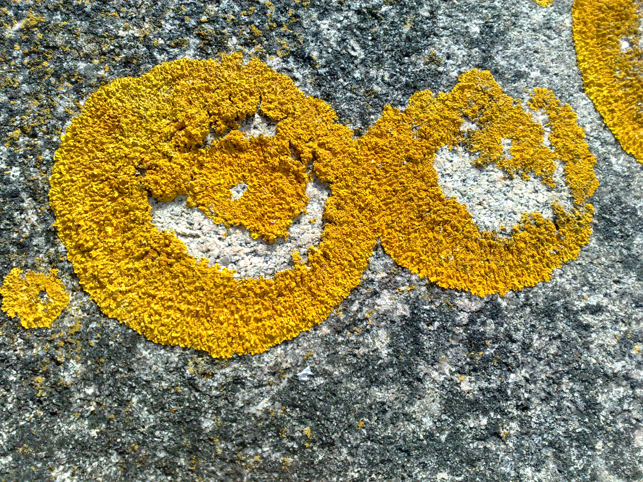 Caloplaca marina in shapes resembling two smiley faces. Photographed on the west coast of Sweden.